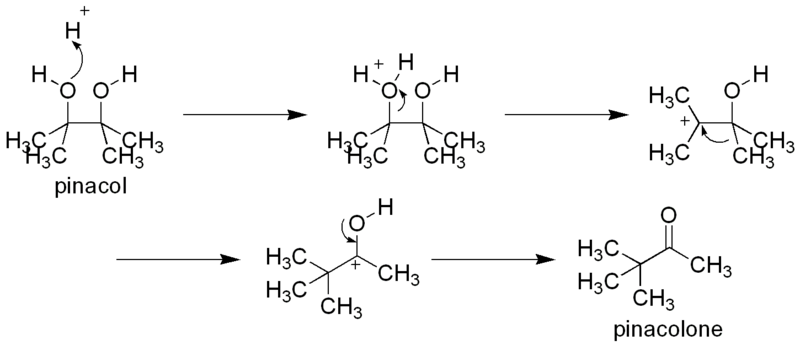 Pinacol rearrangement mechanism